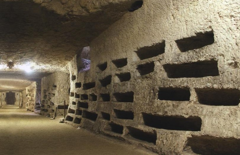 San Giovanni Catacombs - loculi